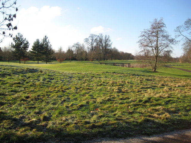 Newbury: Site of the Second Battle of Newbury 1644 During the Civil War, between 1641 and 1651, the Second Battle of Newbury took place around this area on 27 October 1644 when the Royalists under King Charles I fought the Parliamentarians under the Earl of Essex. The King had just returned with his army from the West Country and relieved the garrison at Donnington Castle on 22 October. However the larger Parliamentarian army regrouped and attacked the Royalist strongholds at the castle, at Speen to the west, and Shaw House to the east on 27 October. The Royalist army comprised some 8,500 troops and the Parliamentarians mustered about 19,000. The ensuing skirmishes resulted in similar proportions of casualties on both sides, with the Royalists losing about 1,500 and the Parliamentarians about 2,000 men. Although the result of the battle was indecisive, the King realised that his army could not face a further battle on a second day and made an unopposed retreat to his Oxford stronghold. On the following day the Parliamentarians regained Donnington Castle, which had been their stronghold until the First Battle of Newbury, only for the Royalists to retake it on 9 November. Today the battlefield is occupied by the golf course of the Donnington Grove Country Club.